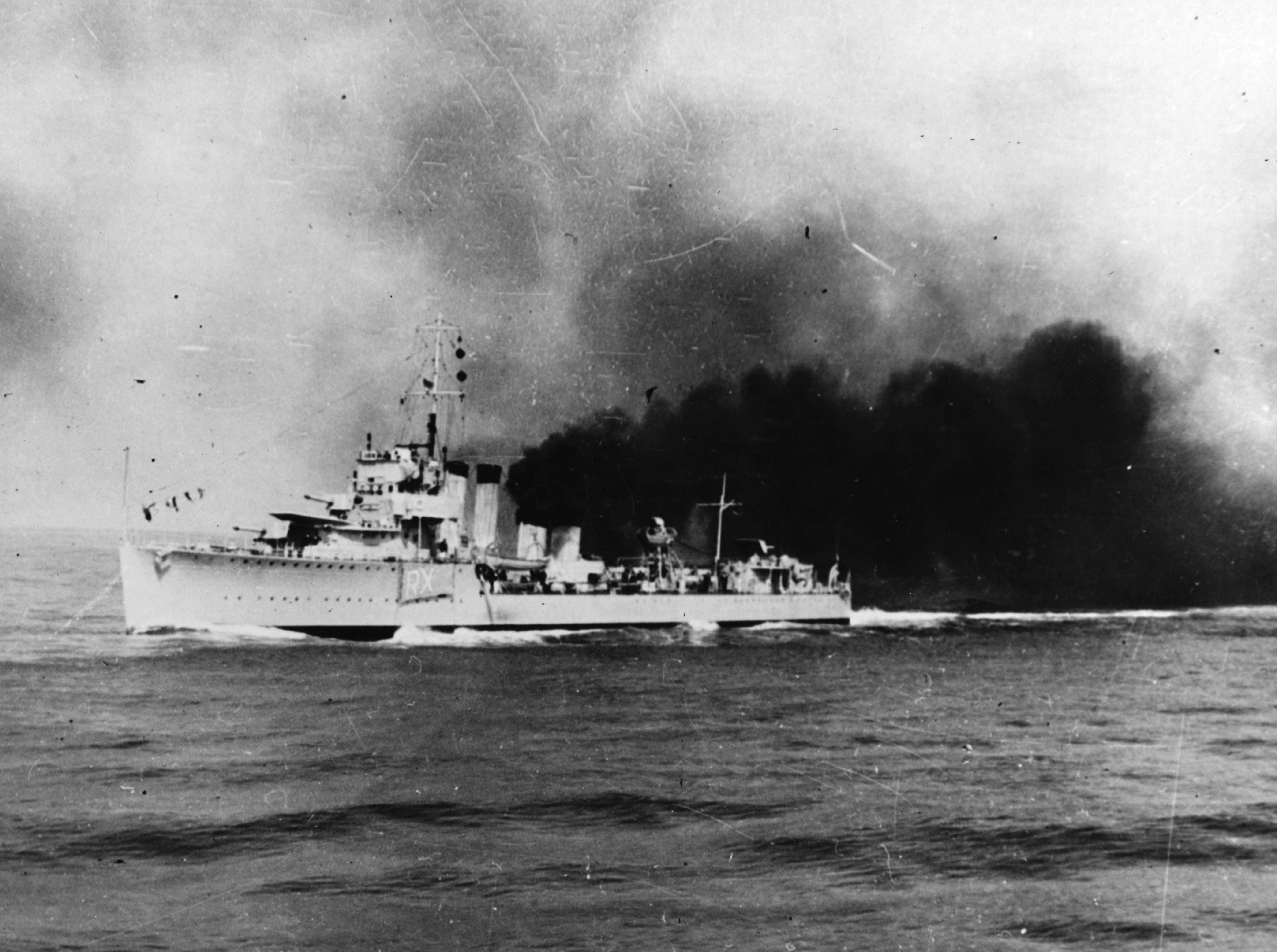 A British V and W-class destroyer photographed on maneuvers in the Mediterranean Sea between World War I and II, disguised to look like the French 4-funnel destroyer Enseigne Gabolde by addition of two dummy funnels. False French-style identity letters have been hung over the ship's side as well.